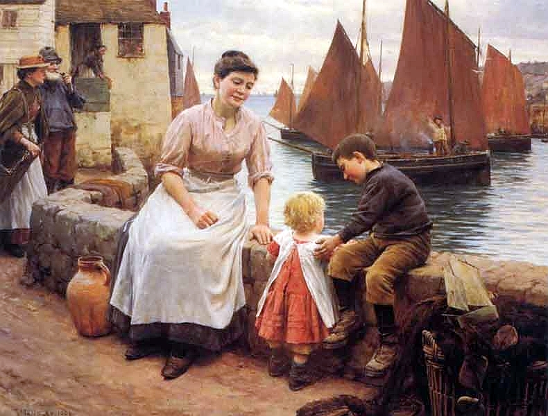 The Greeting